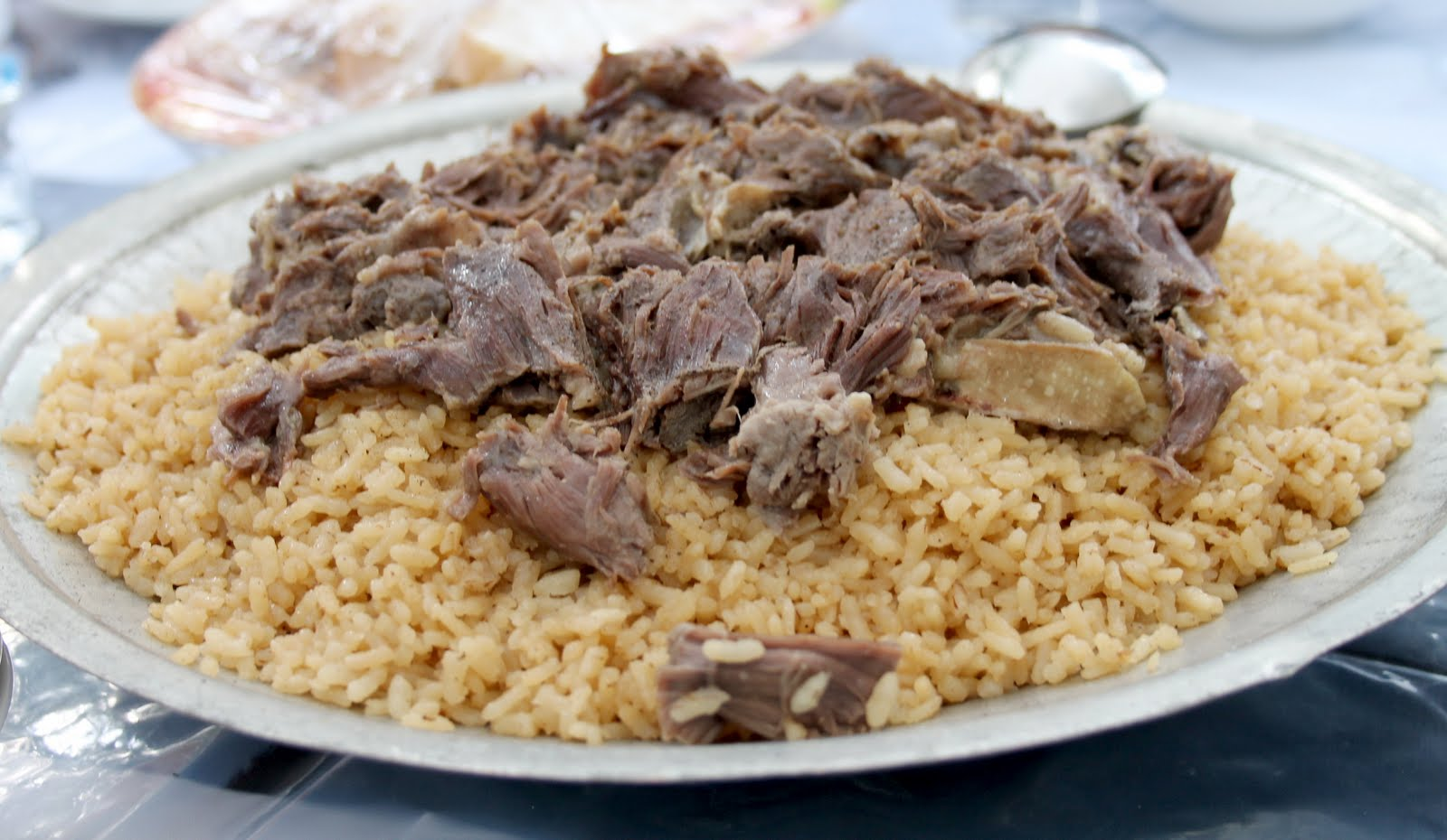 İskilip Dolması 2